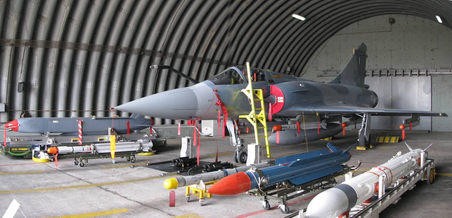 A Hellenic Air Force Mirage 2000-5 displayed at the 2008 HAF air show, in Tanagra airbase, Greece